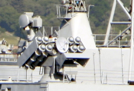 Crotale missile launcher on a French frigate moored in Toulon harbour